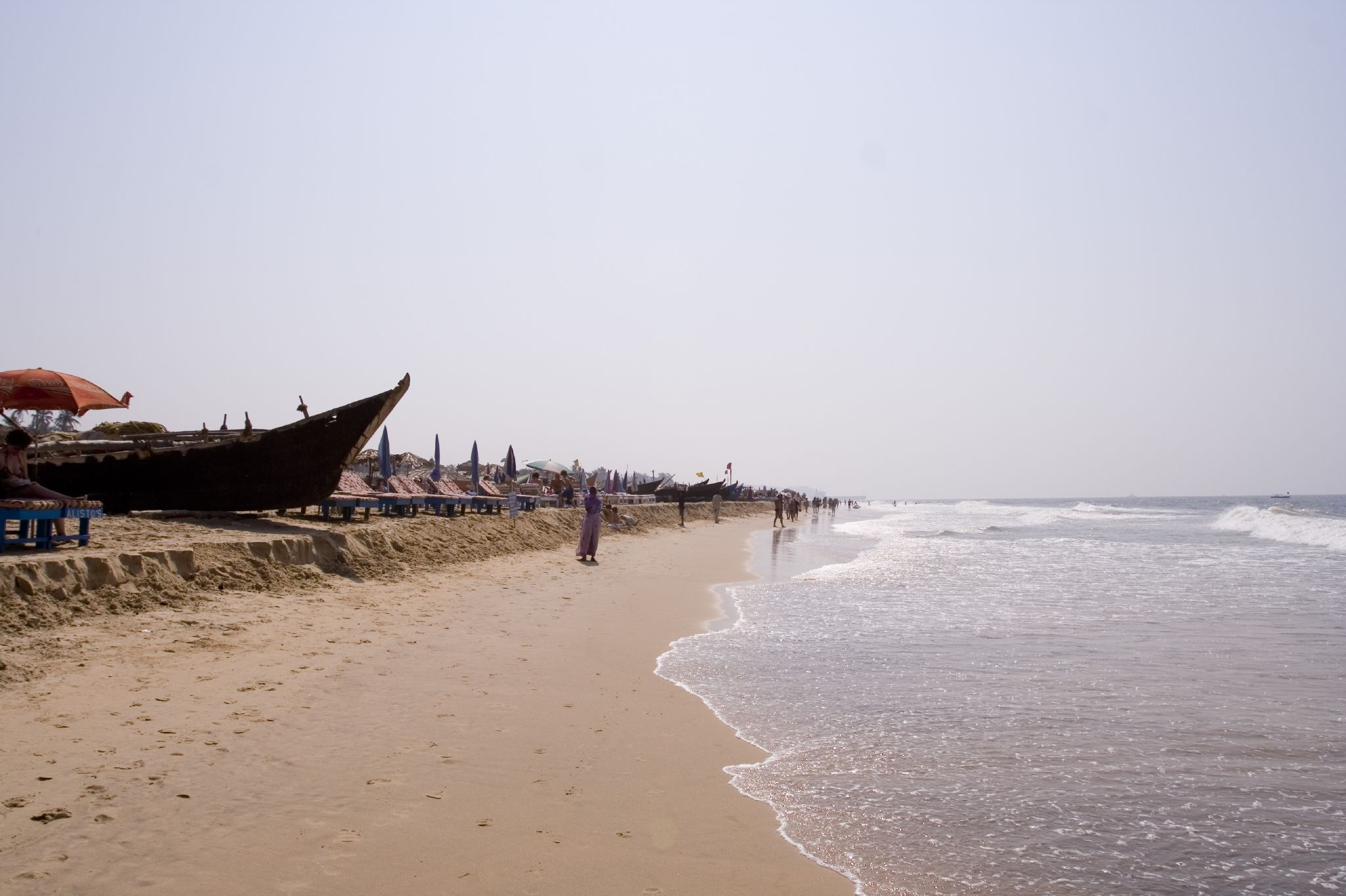 It's not apparent from this image, but the surf here -- coming straight off the ocean without a breakwater -- was body-slammingly fierce. Arabian seawater was dripping out of my sinuses long after we left Goa.